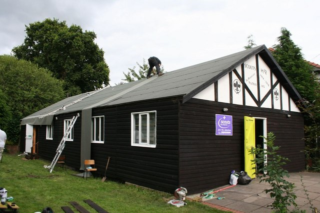 1st Rhosnessney Scout Hut